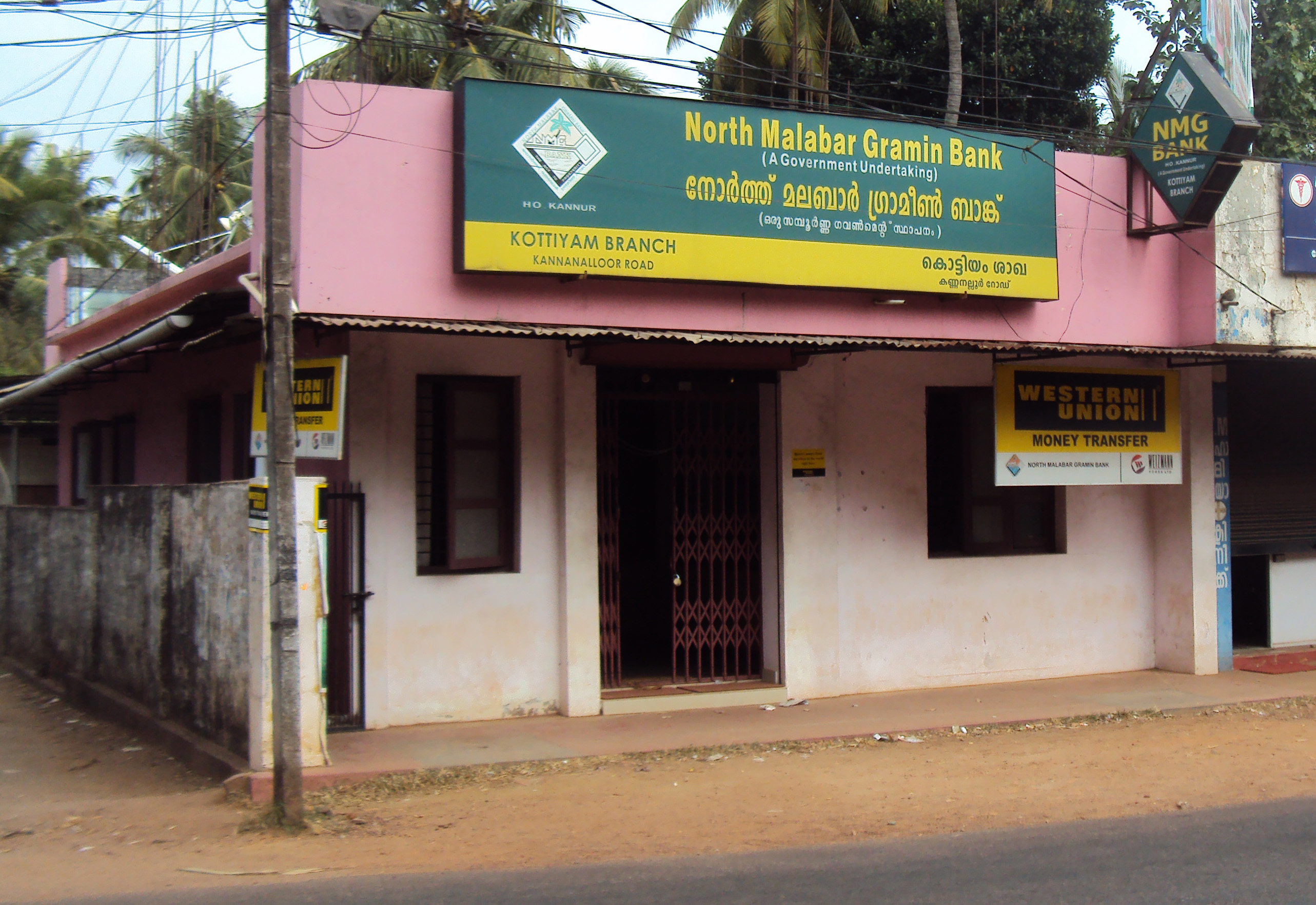 North Malabar Gramin Bank Kottiyam Branch